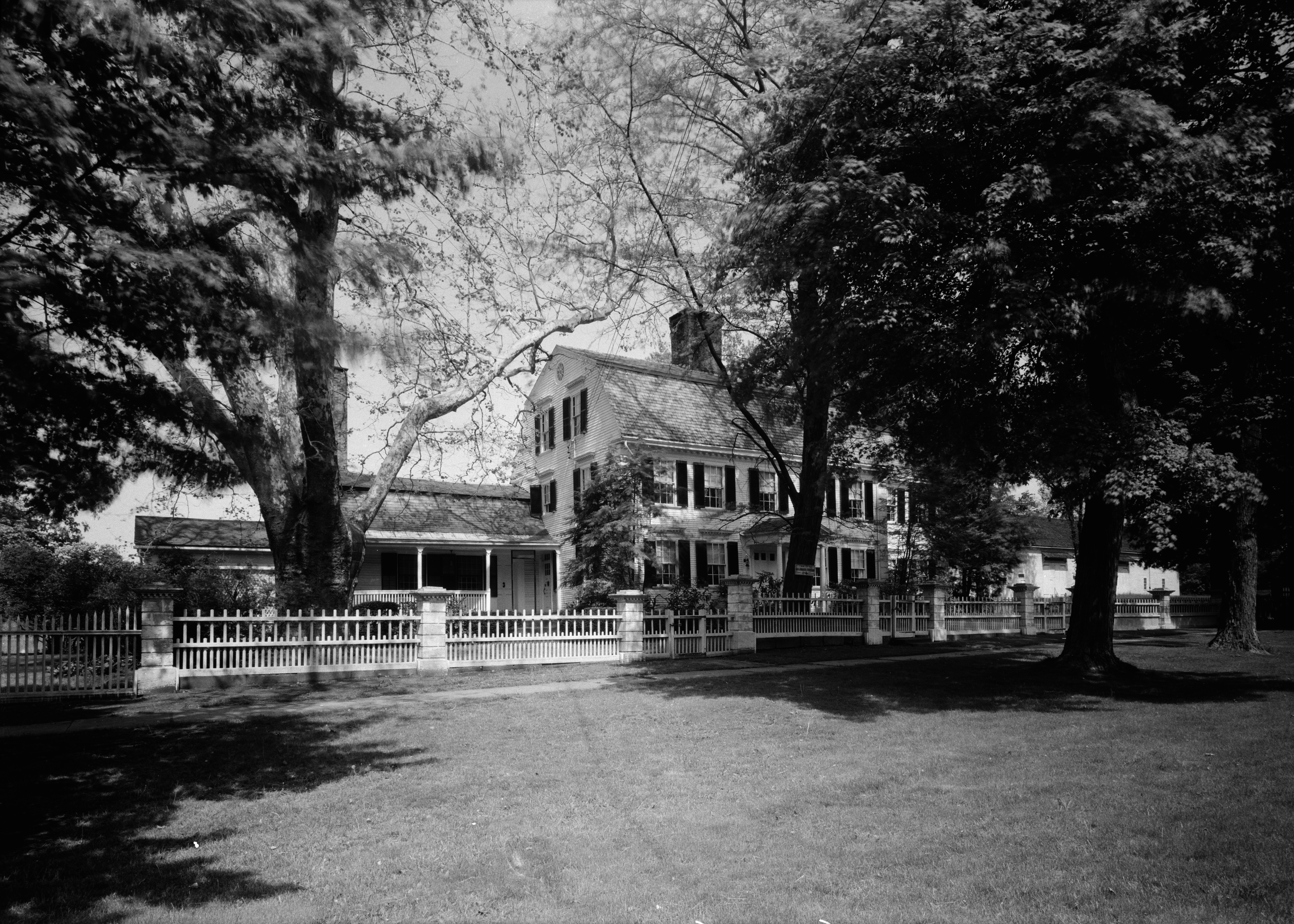 Photograph of the Burbank-Hatheway House, Main Street, Suffield, Hartford County, Connecticut, showing the south elevation of the main building. The home was built circa 1735–1747. Historic American Buildings Survey, The Library of Congress, Washington, D. C.